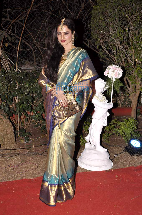 Rekha at Ahana Deol's wedding reception